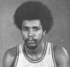 Professional baseball player Stew Johnson